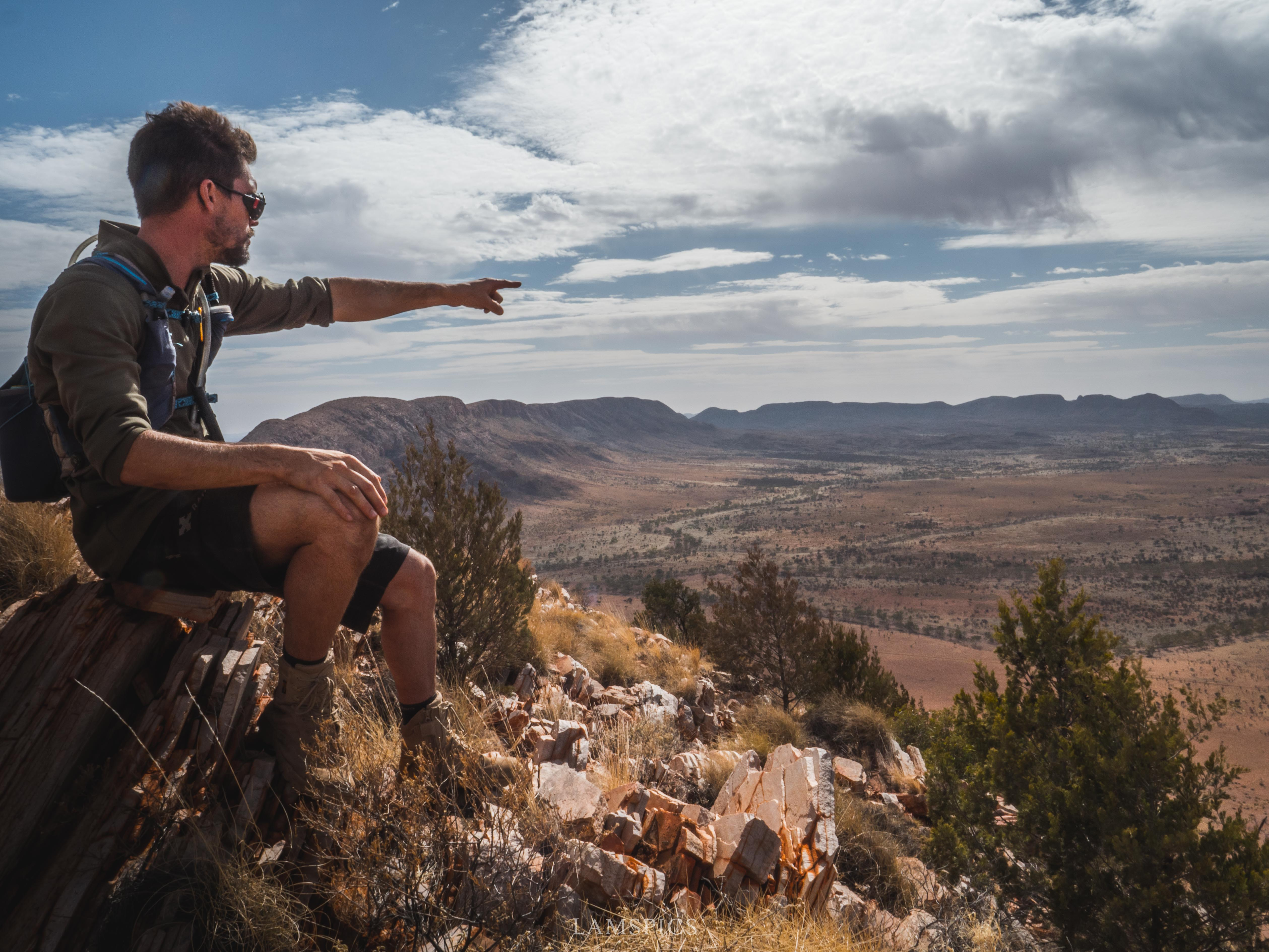 Survival course in the Australian bush to meet the aborigines of the community of Kaltukatjara.